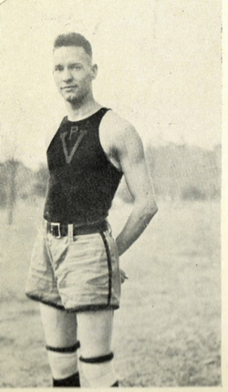 This photo was in the college's Bugle, the name for Virginia Tech's annual.